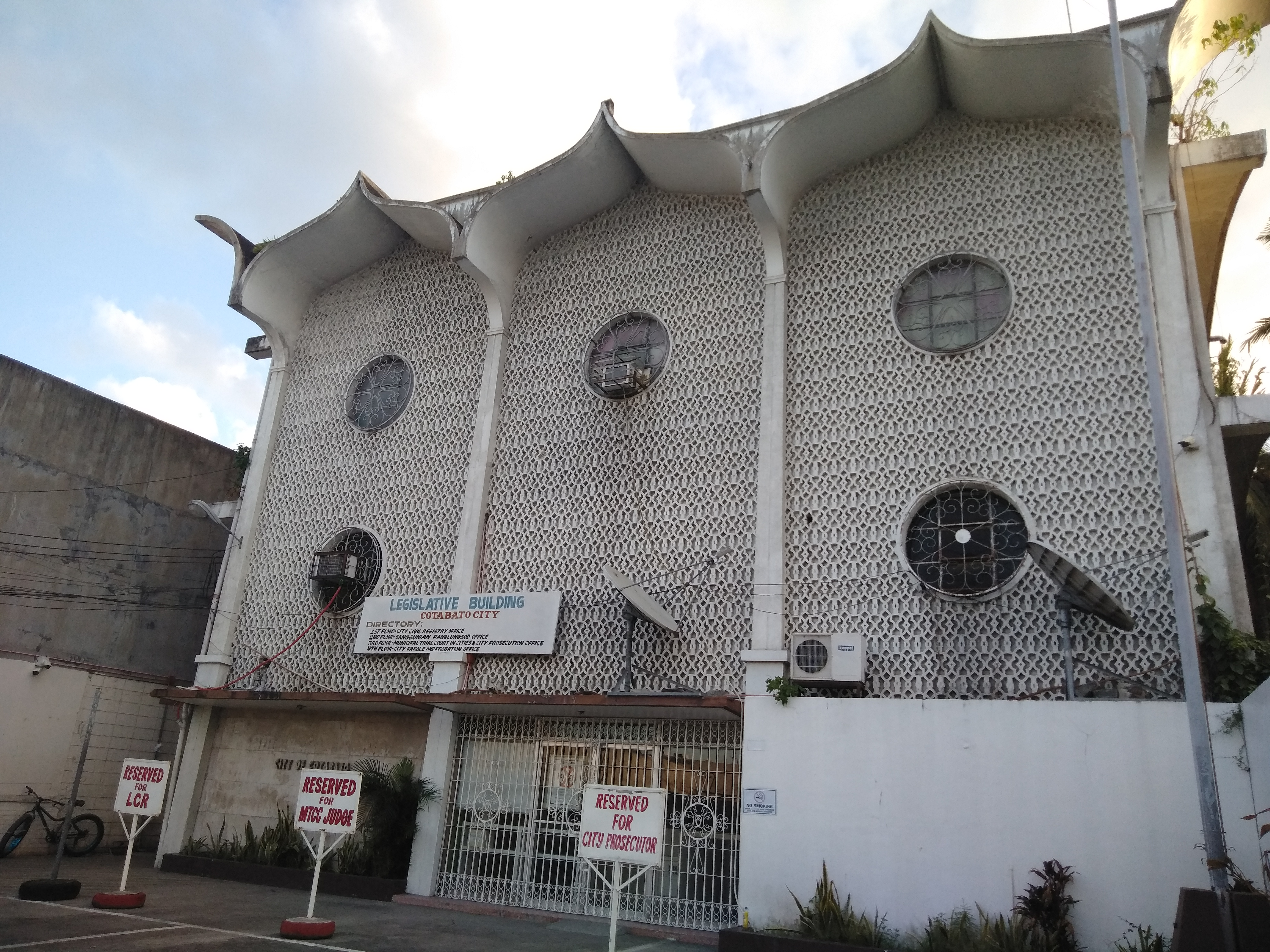 legislative building of cotabato city